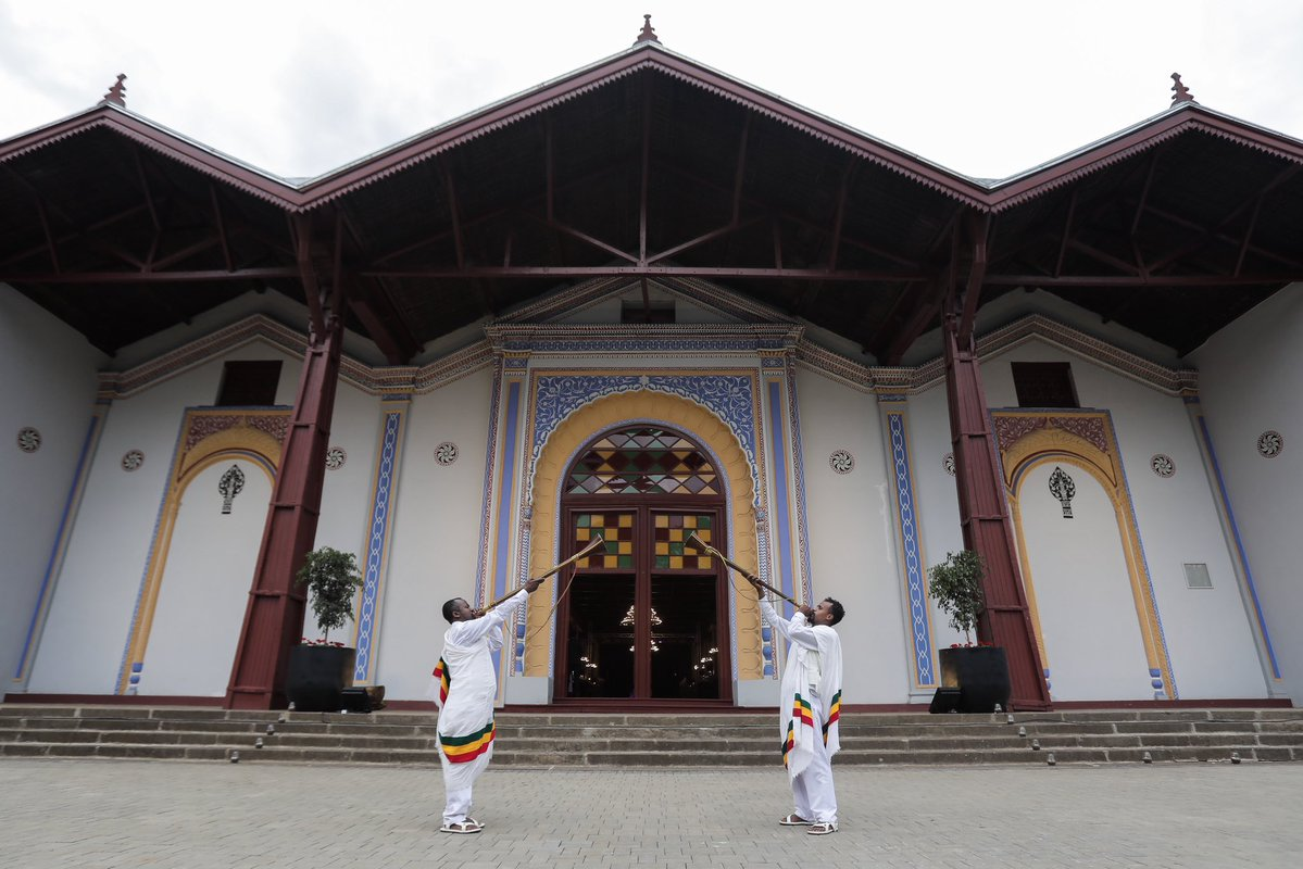 Trumpeters outside the entrance to former emperor Menlik's palace during the Dine for Sheger event in Ethiopia.